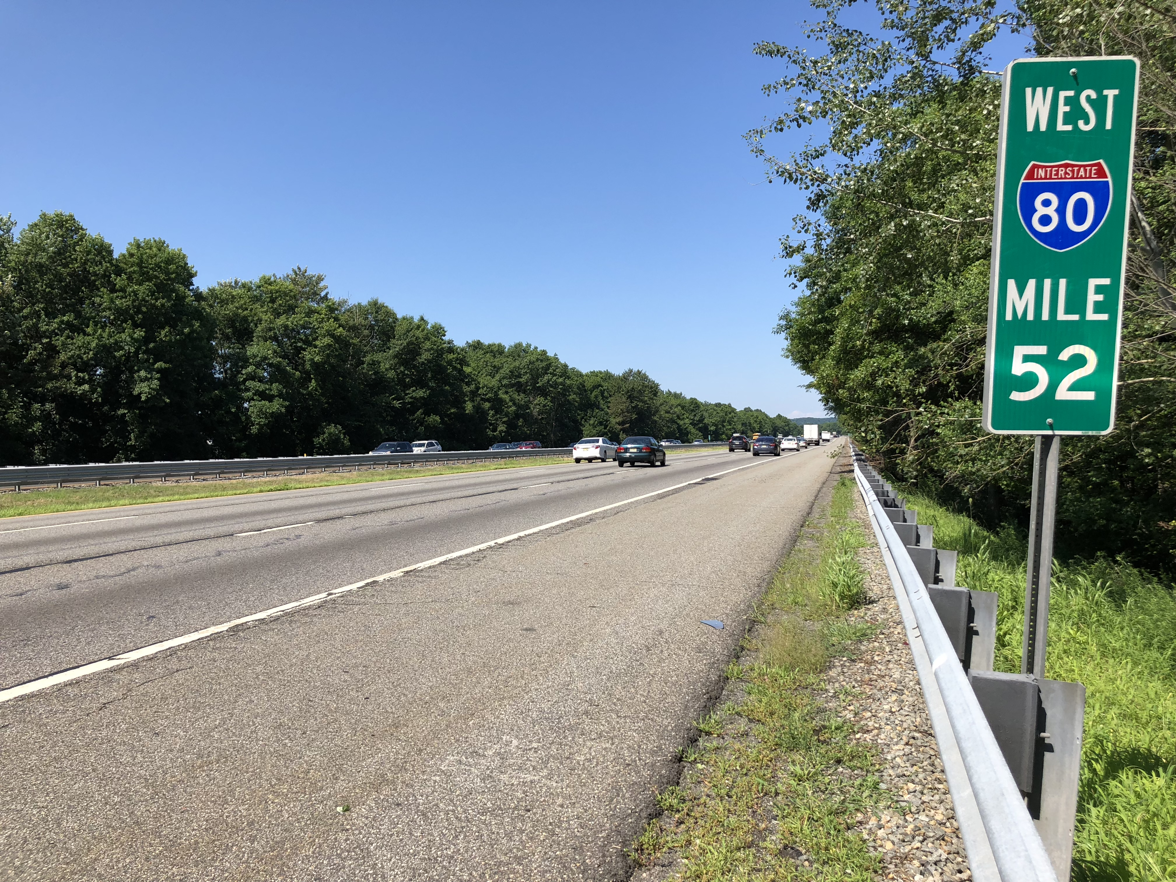 View west along Interstate 80 just west of Exit 52 in Fairfield Township, Essex County, New Jersey